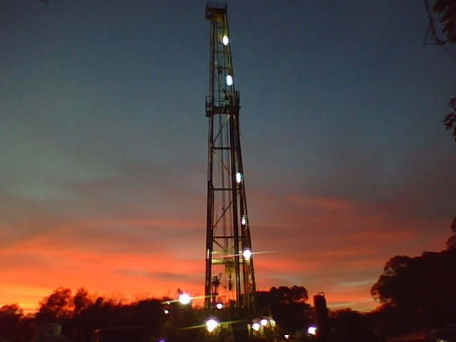 Swanson Drilling making hole in south Texas